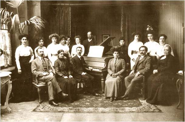 The Tiflis music school. In the centre the head of the school N. Nicolaev and the pianist Anna Thulashvili, 1910